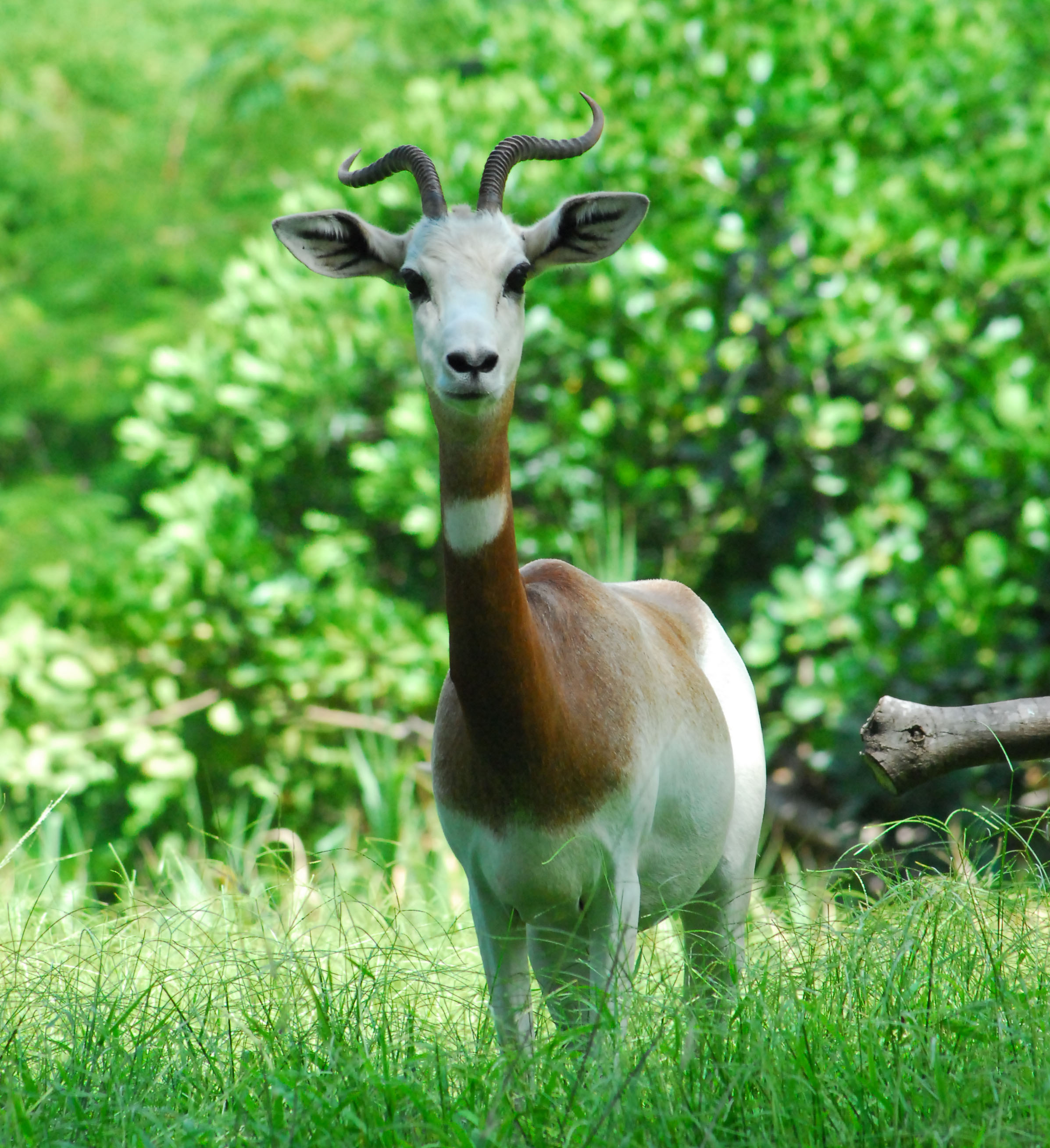 Dama Gazelle at Honolulu zoo.